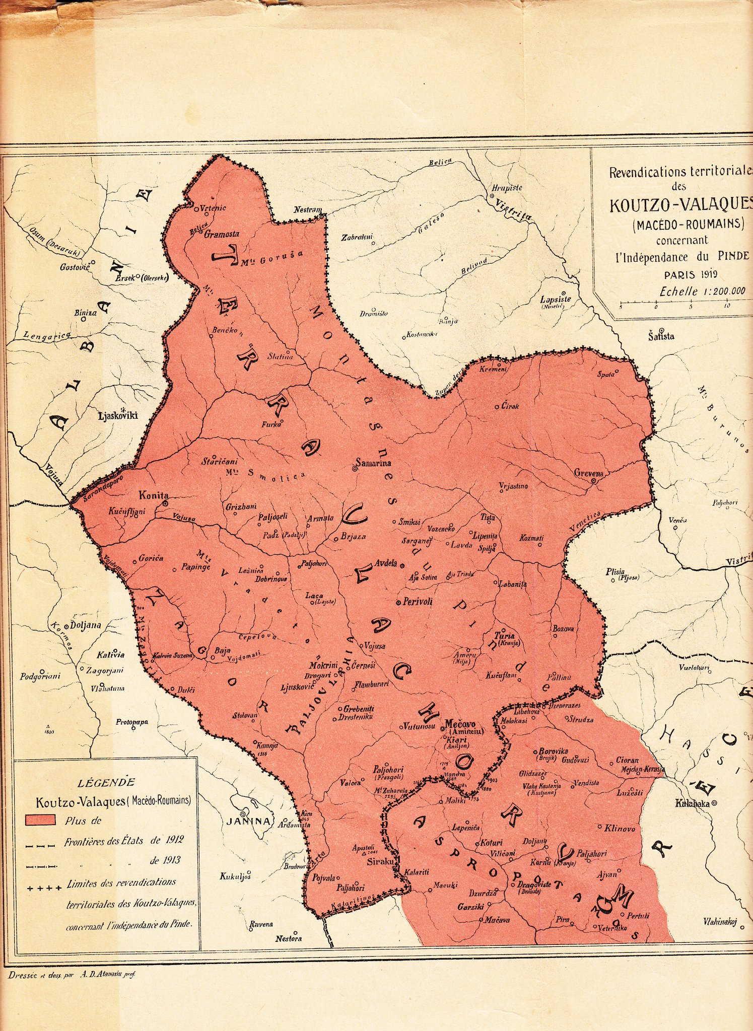 Plan for autonomous Pind on Peace conferetion in Paris after World War 1